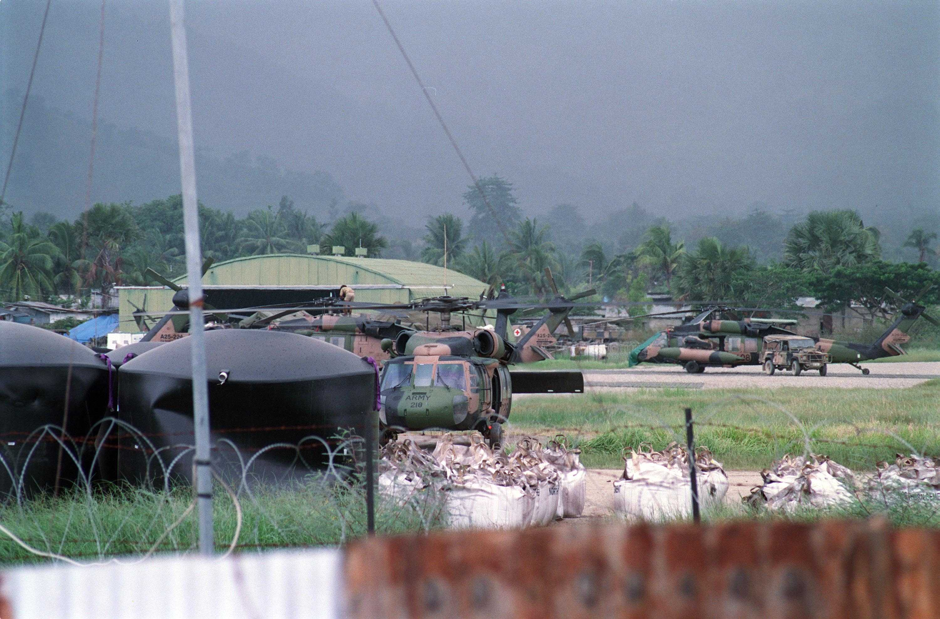 USS Blue Ridge, 12 February 2000, Dili, East Timor--Photograph of Australian Blackhawk helicopters stationed at the heliport an Australian controlled air base.